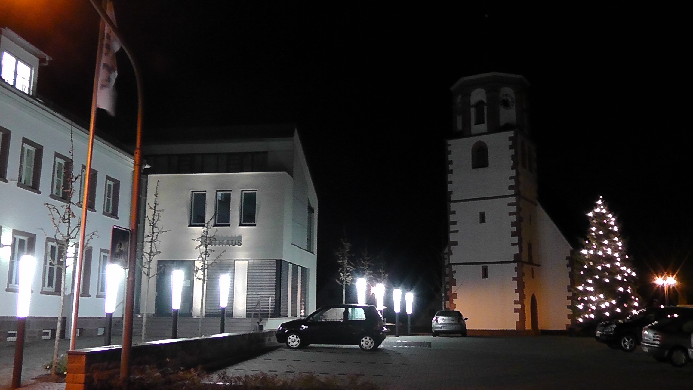 Town hall of Neuhausen (Enzkreis), Germany. In the background you see the Neuhausen's christmas tree, marketplace and catholic church.